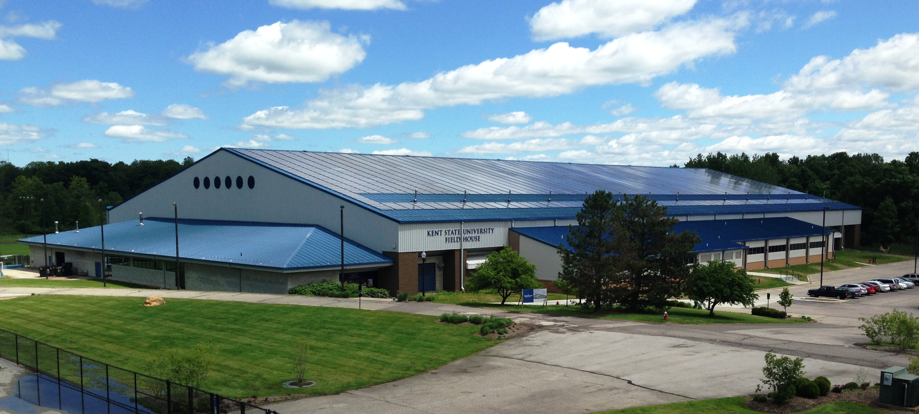 View of the Kent State Field House on the campus of Kent State University in Kent, Ohio, United States. The Field House is adjacent to Dix Stadium and is the primary practice facility for the Kent State Golden Flashes football team, as well as the home venue for the men's and women's indoor track teams. The Field House was built in 1990 and had an addition completed on the front of the building in 2014 to provide additional locker rooms for the track and field, women's soccer, and field hockey teams. Solar panels were added to the roof in 2012.